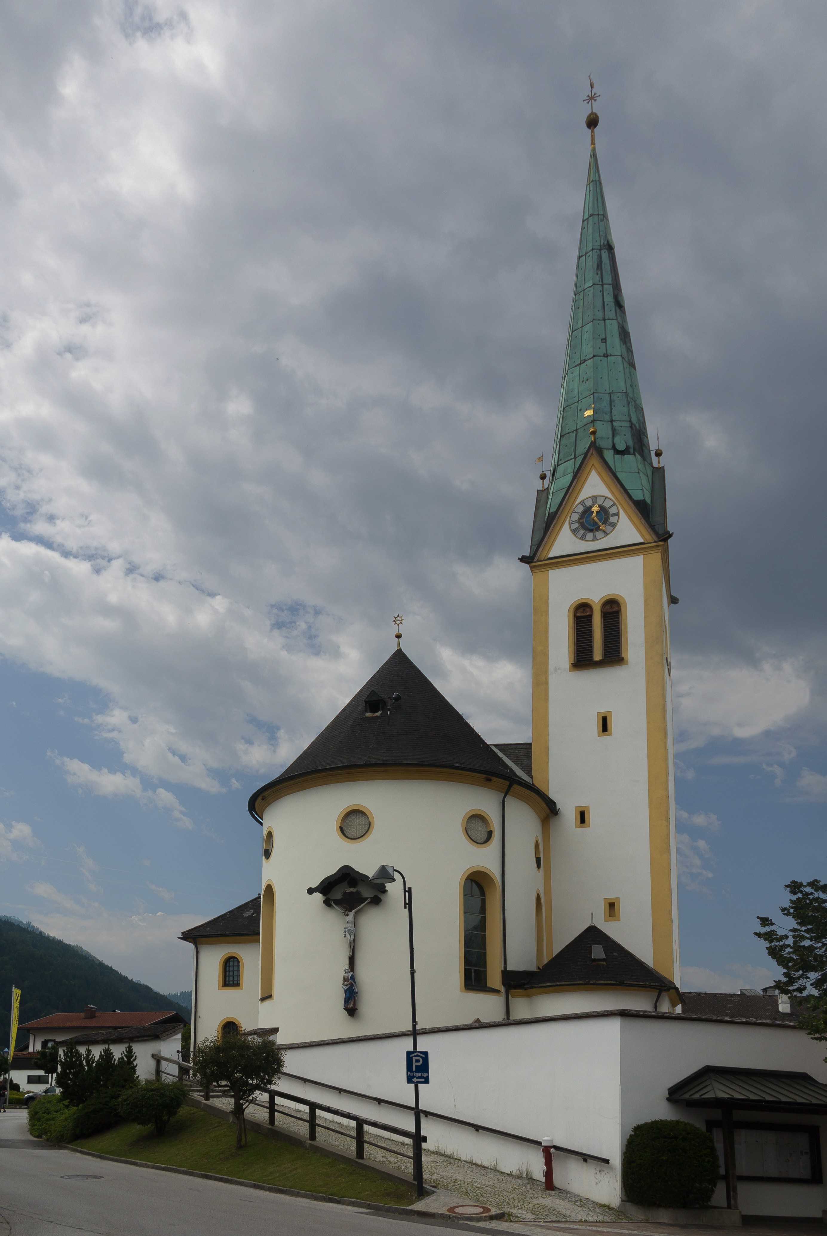 Kundl, church: die Katholische Pfarrkirche Mariä Himmelfahrt